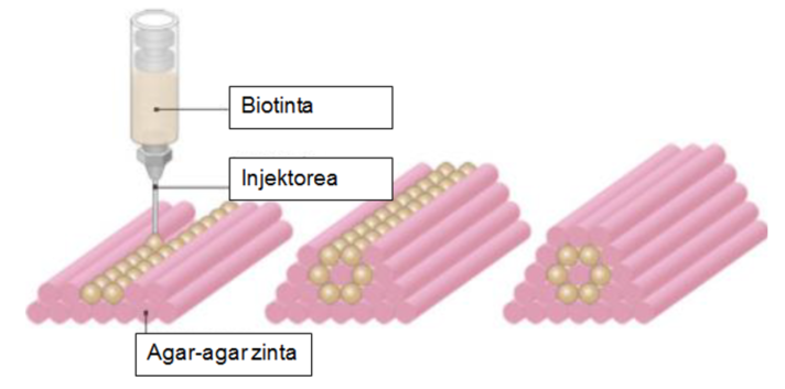 Bioinprimatzean parte hartzen duten elementuak